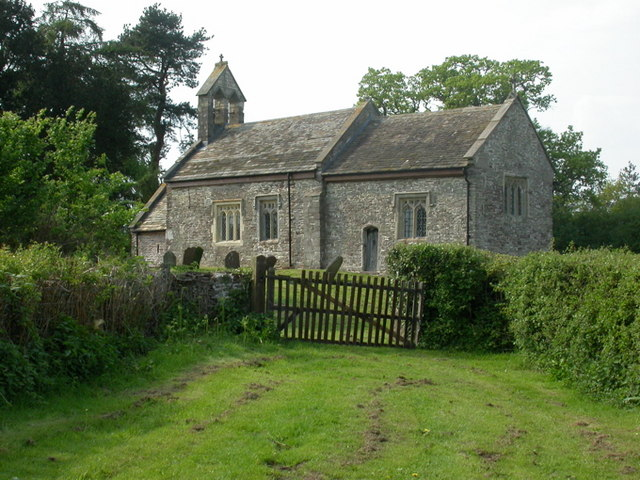 Llangeview Church, near to Llanllowell, Monmouthshire/Sir Fynwy, Great Britain. This is must have been a tranquil spot, now somewhat marred by the proximity of the A449(T). The setting is still beautiful though. In 1999, following a declaration of redundancy, the church passed into the care of the Friends of Friendless Churches who preserve it as a place of quiet contemplation for the local community and for visitors to enjoy. Link